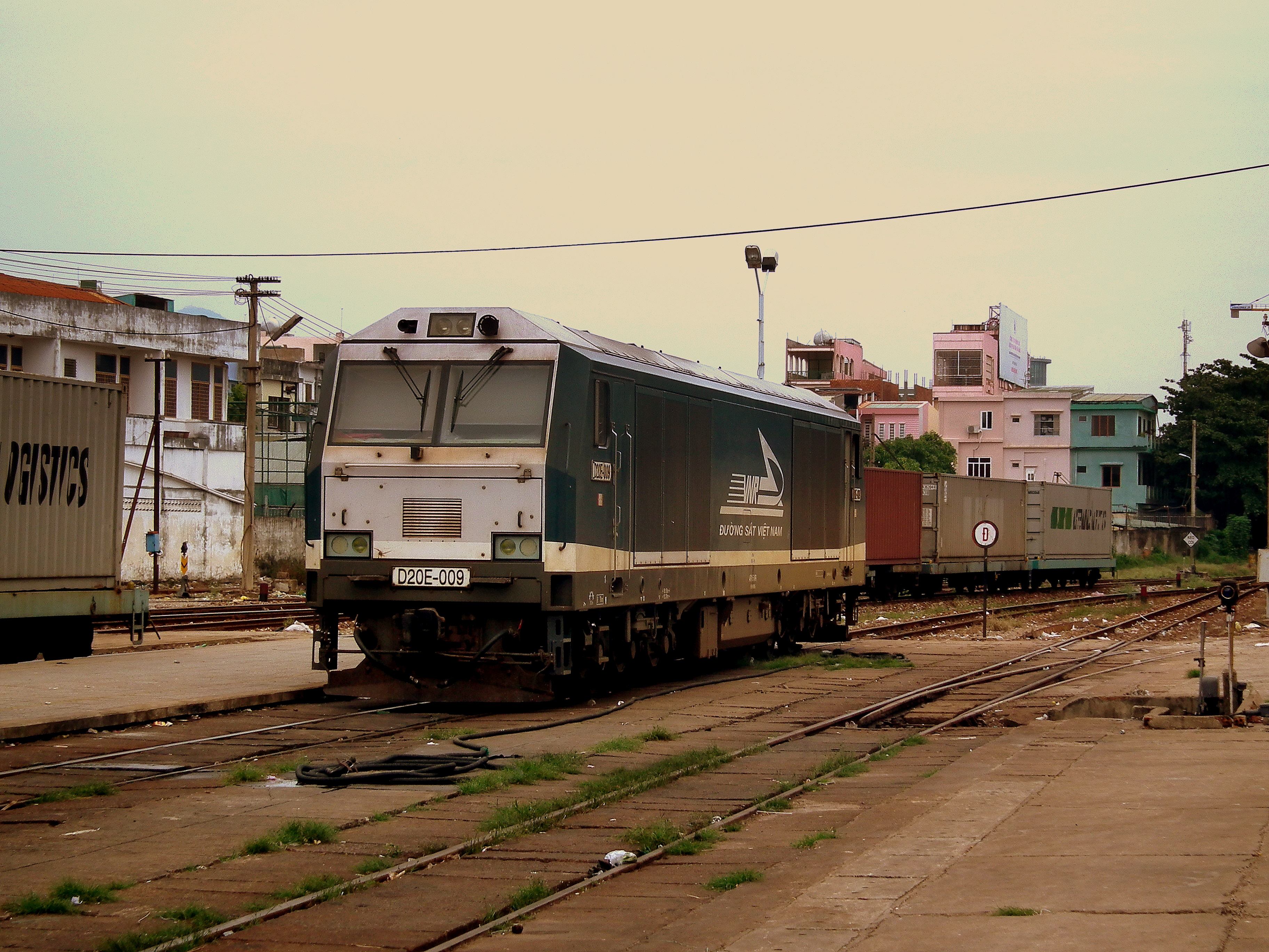 Vietnam Railways locomotive D20E-009 at Danang Railway Station.